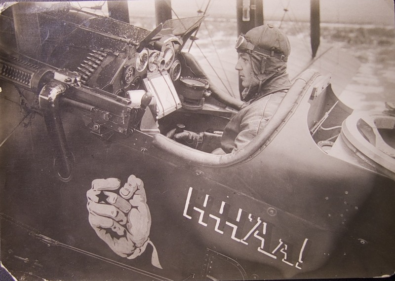 19 separate aviation group of Red Army. A plane R-1. The conflict on the Manchurian Chinese Eastern Railway